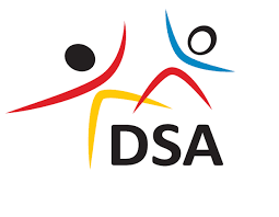 Symbol Spolocnosti DSA